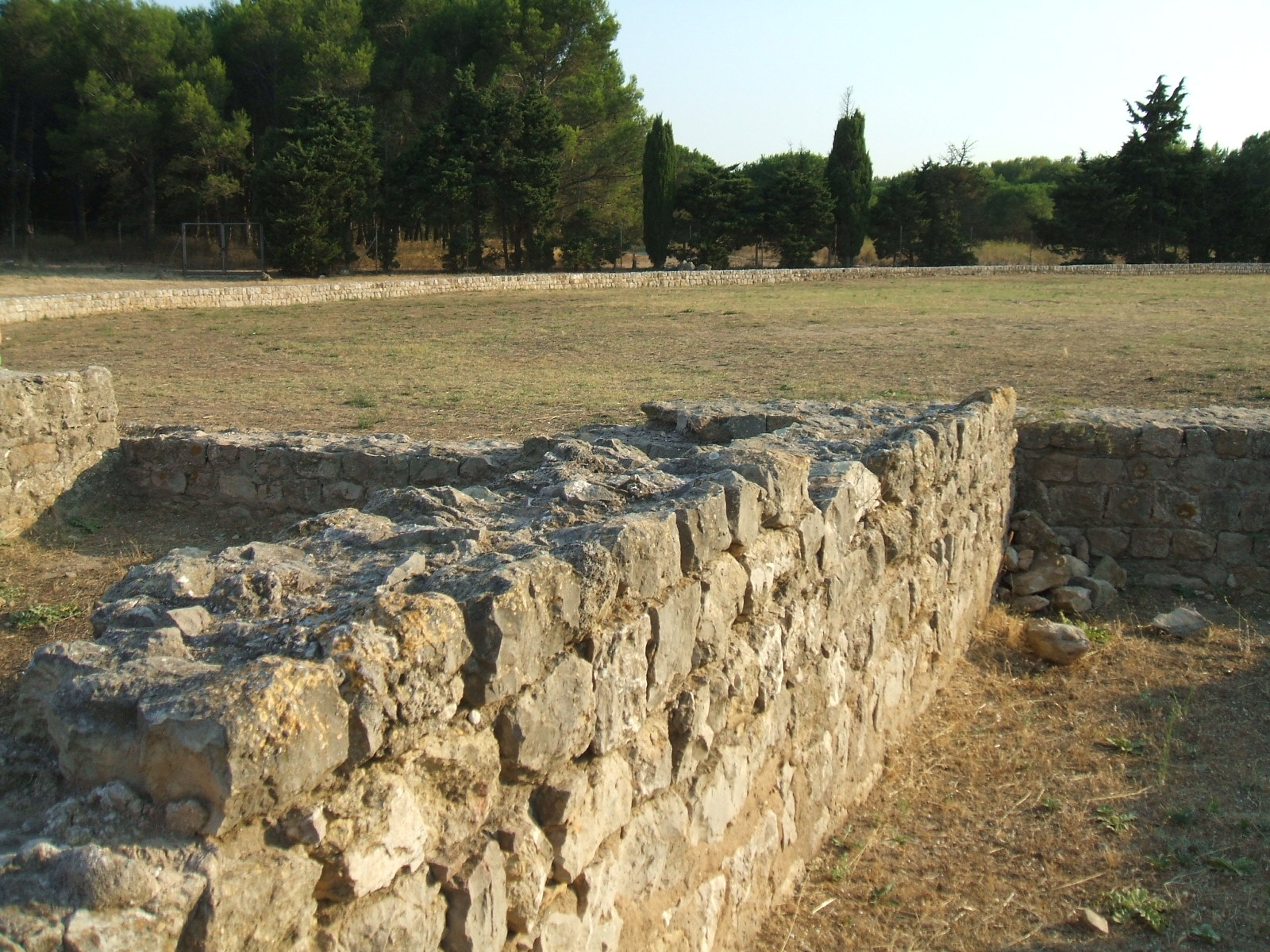 Empuries Archaeological Site (Catalunya, Spain) : Roman Town ; the amphitheater, south of the Roman settlement